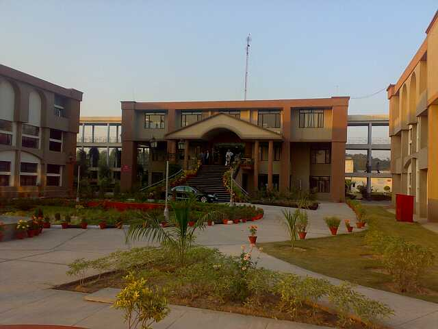 Administrative Block of Rieit.